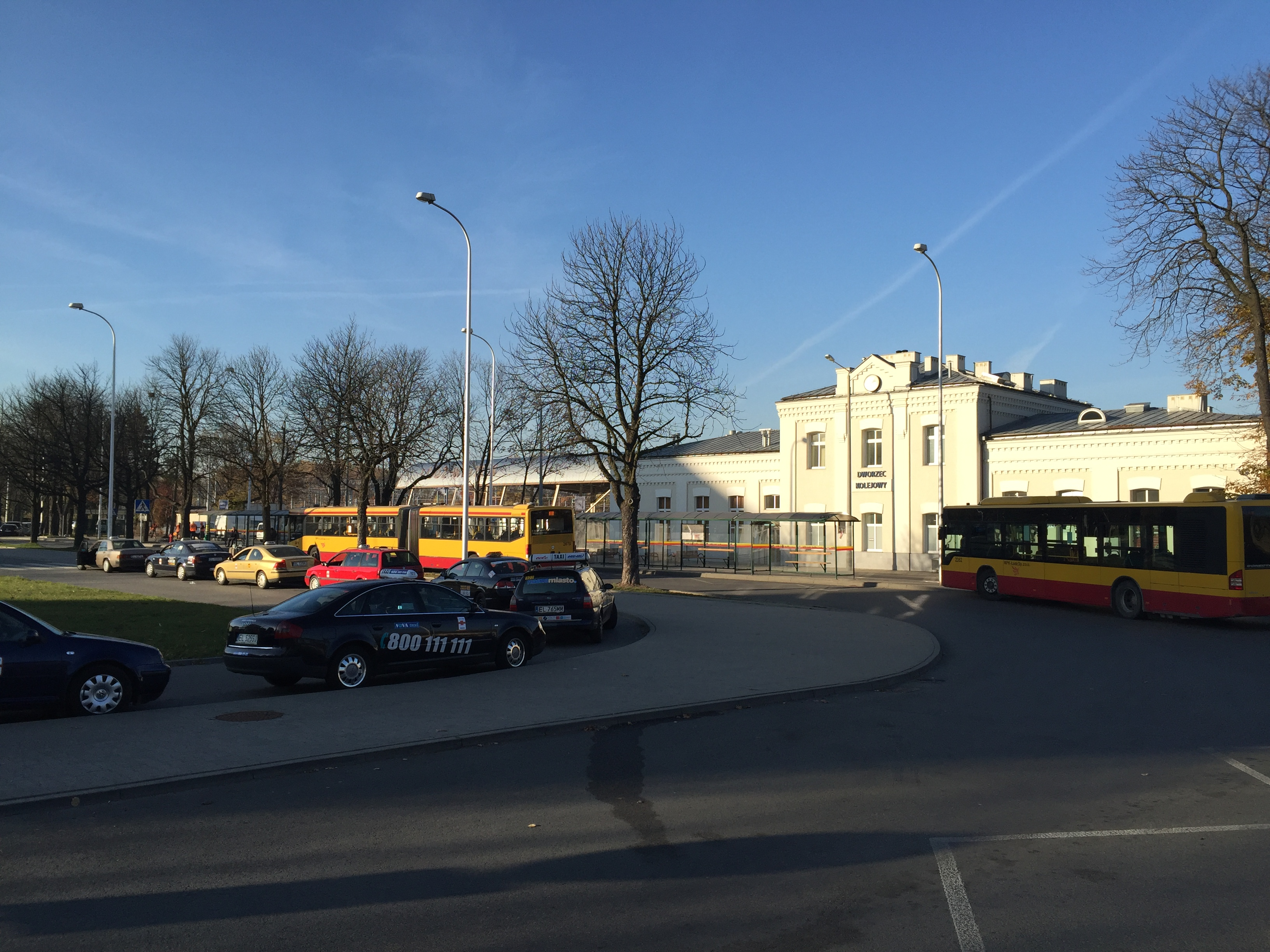 Lodz Widzew Railway Station, Lodz, Poland. Bus interchange and taxi rank